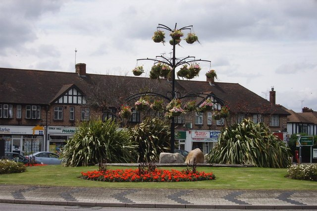 Roundabout at Cuckoo Corner A strange Hamging Plants design, by Southend-on-Sea Borough Council, in front of 1920's Shopping Arcade, Earls Hall Parade.